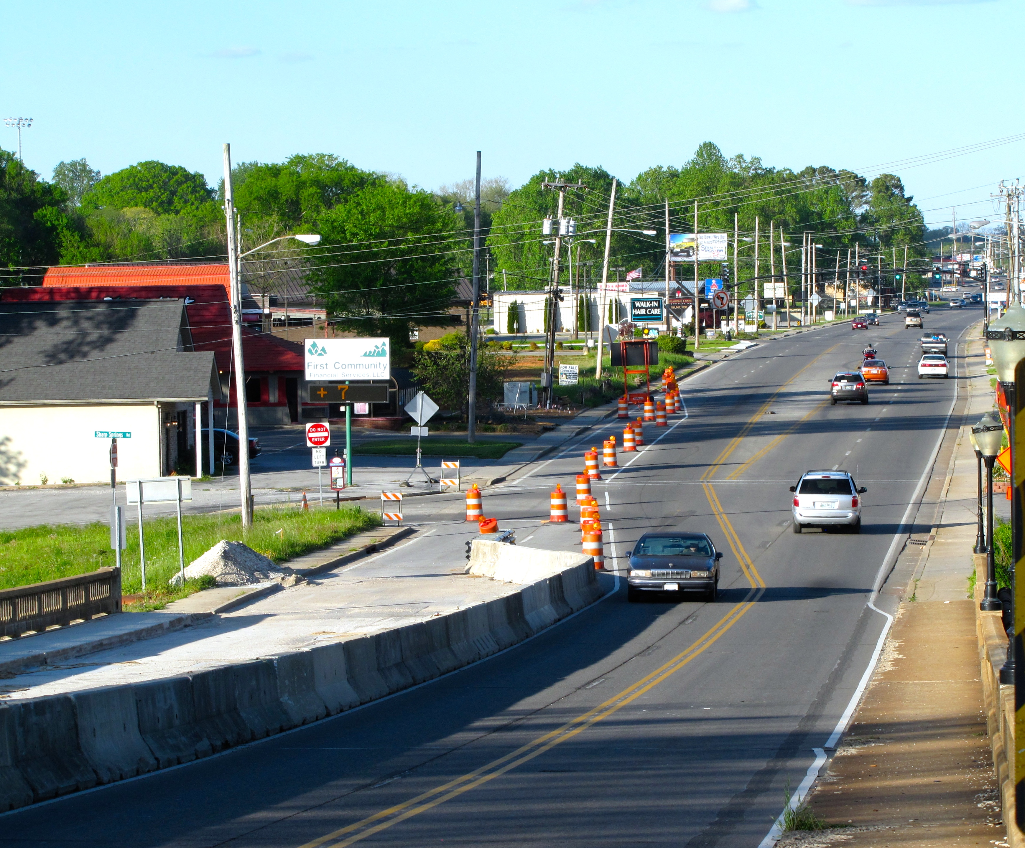 U.S. Route 41A (Dinah Shore Boulevard) in Winchester, Tennessee, United States.